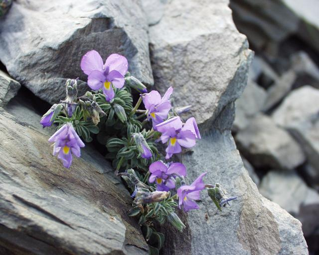 (en) Diverse-leaved Violet (Viola diversifolia), a photography originating of the internet site The accord of the autor, H. Brisse, is here. (fr) Pensée de Lapeyrouse (Viola diversifolia), une photographie issue du site internet L'accord de l'auteur, H. Brisse, se situe ici.